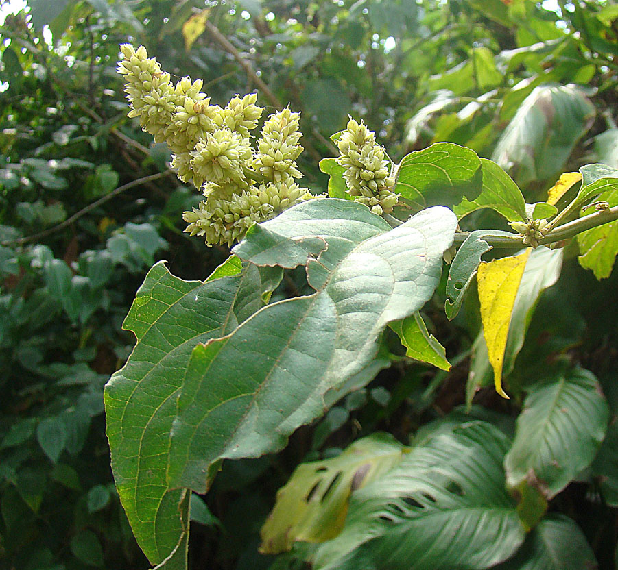 Of African origin, widely naturalized in the neotropics. Known as Cola de Armado in Mexico, and Mangalarga elsewhere. Photo near Monteverde, Costa Rica. In context at